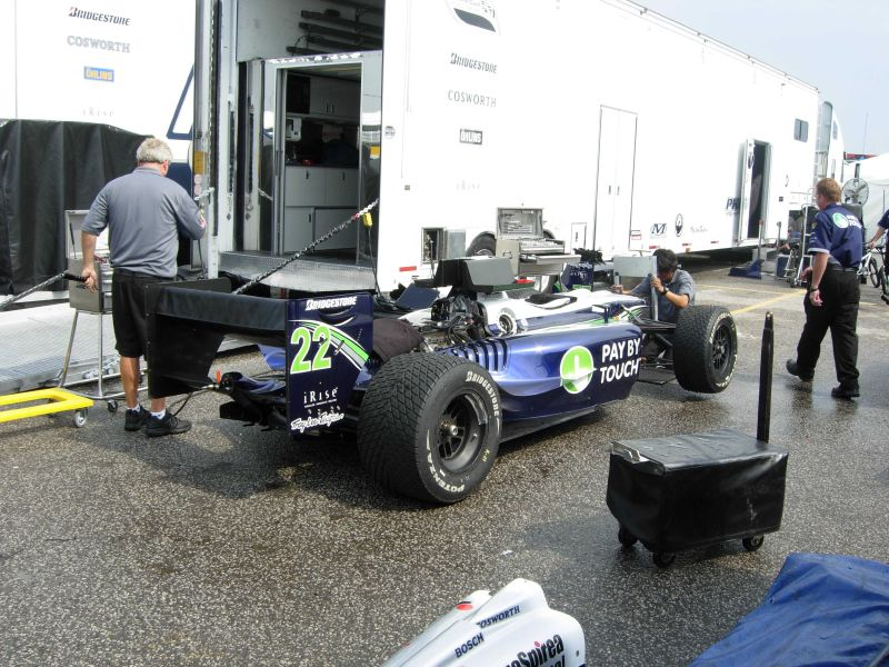 Tristan Gommendy 2007 Champ Car in the pits at the en:2007 Steelback Grand Prix